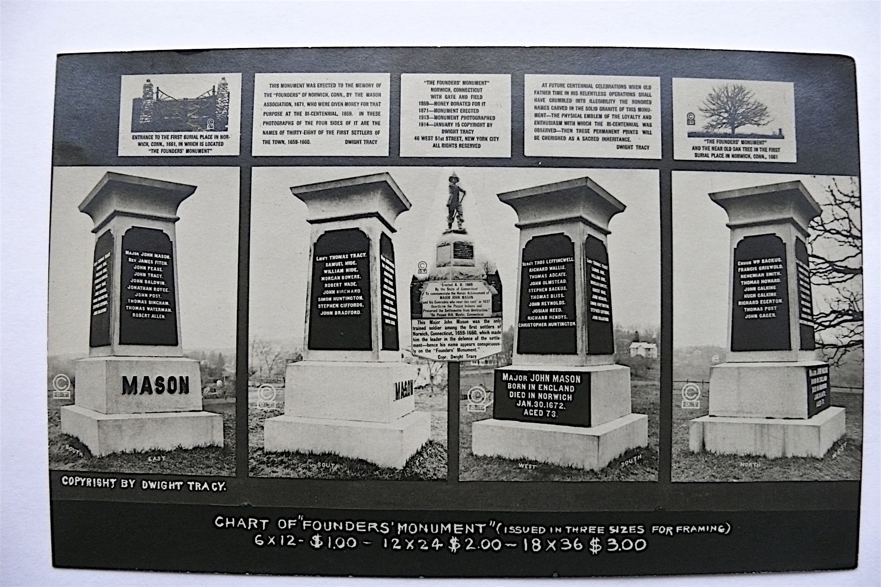 Postcard Images of the Founders Monument in Post-Gager Cemetery